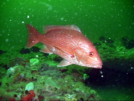 Red snapper, Lutjanus campechanus, in Gray's Reef National Marine Sanctuary